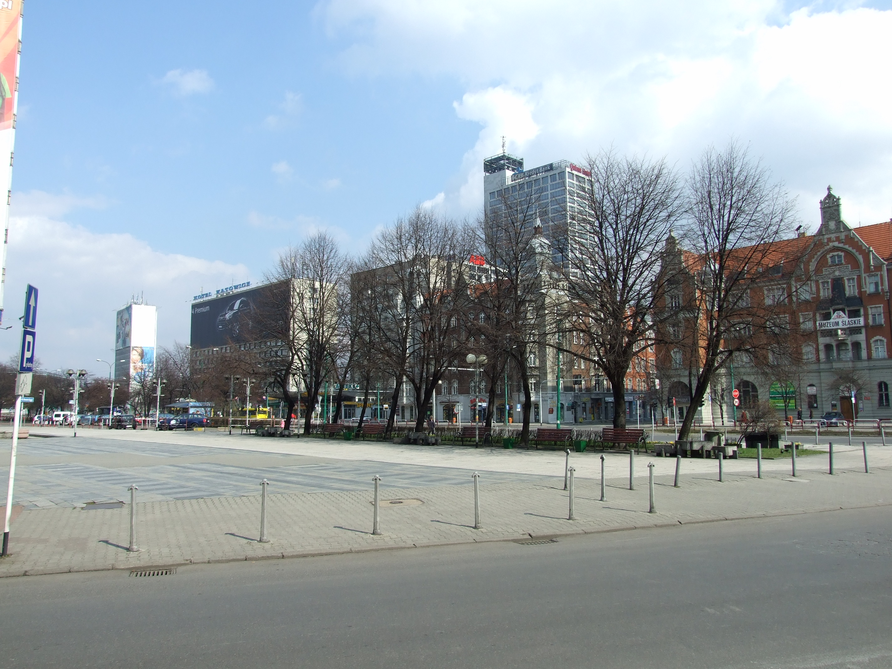 Katowice, city in southern Poland